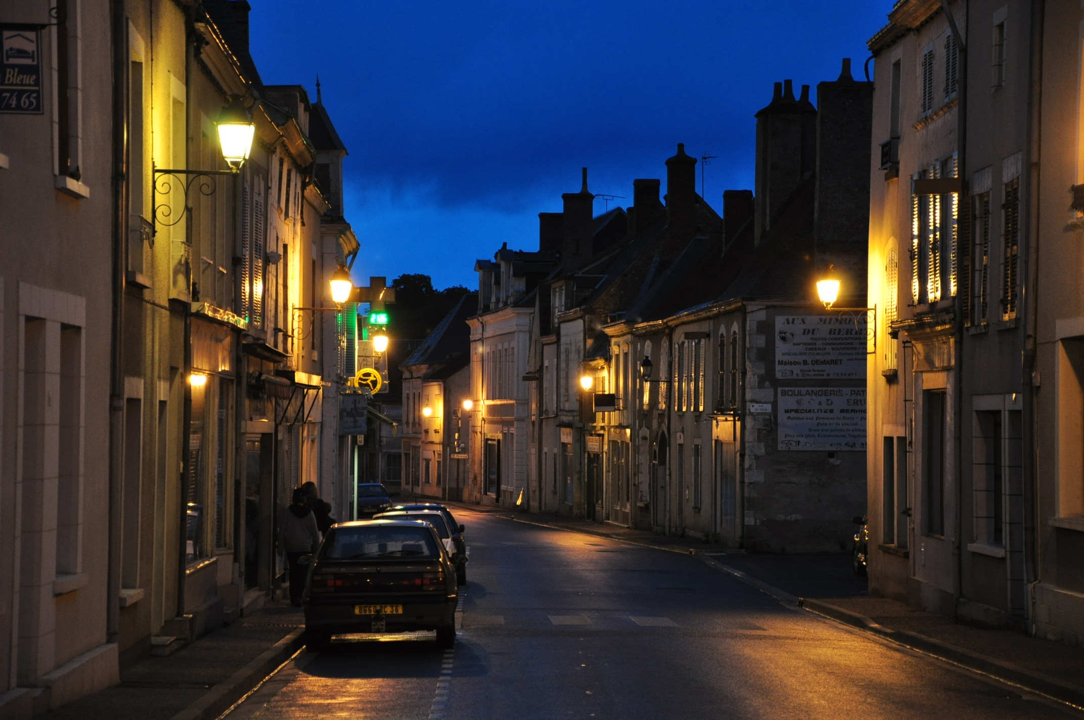 Main street (Rue Grande) in Vatan at night (Indre, France).